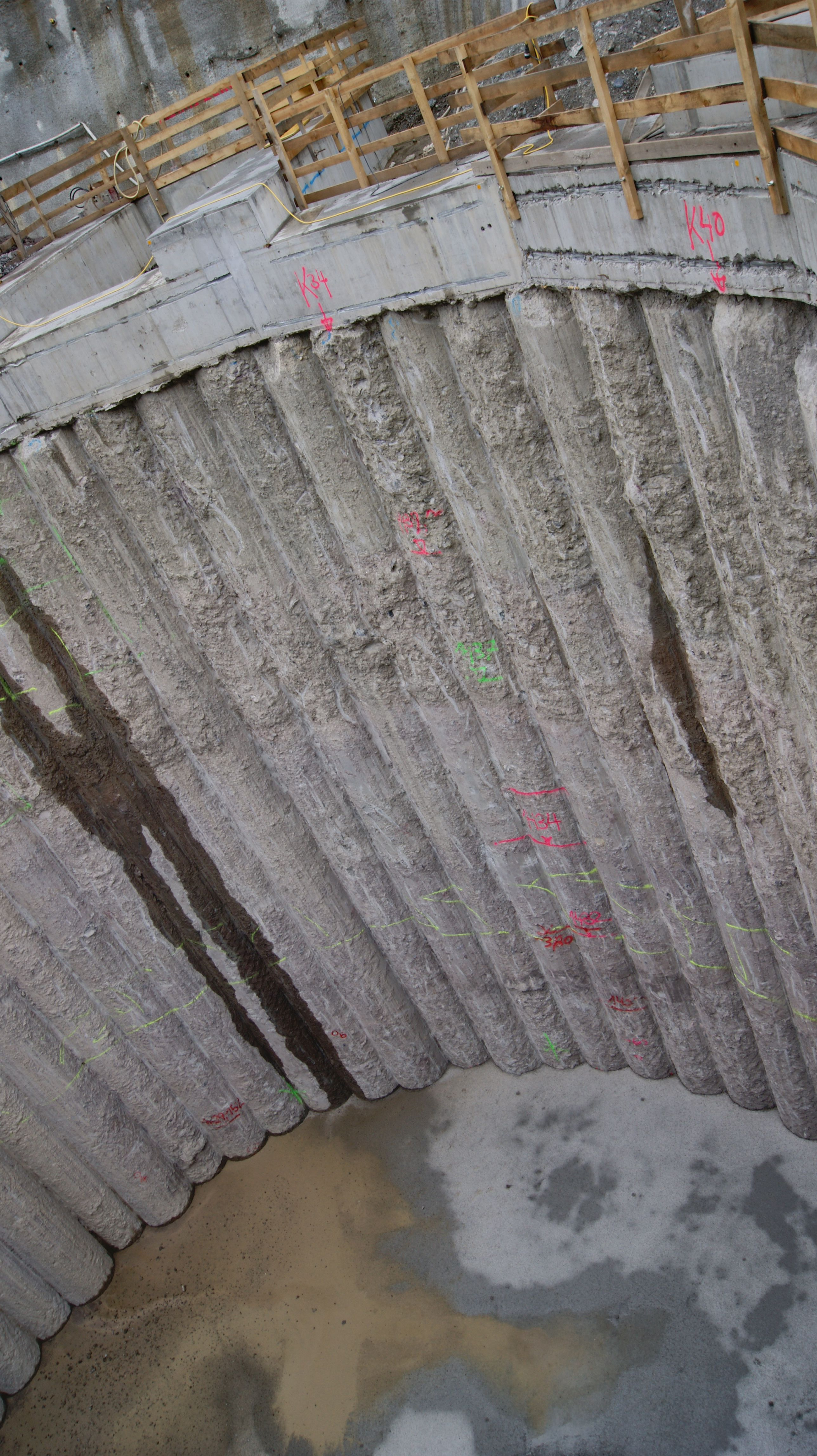 Rellswerk (shaft power plant) in the valley: "Rellstal", Vandans, Vorarlberg, Austria. Shaft of the power plant near riverkilometer 6,30 (Rellsbach) under construction.